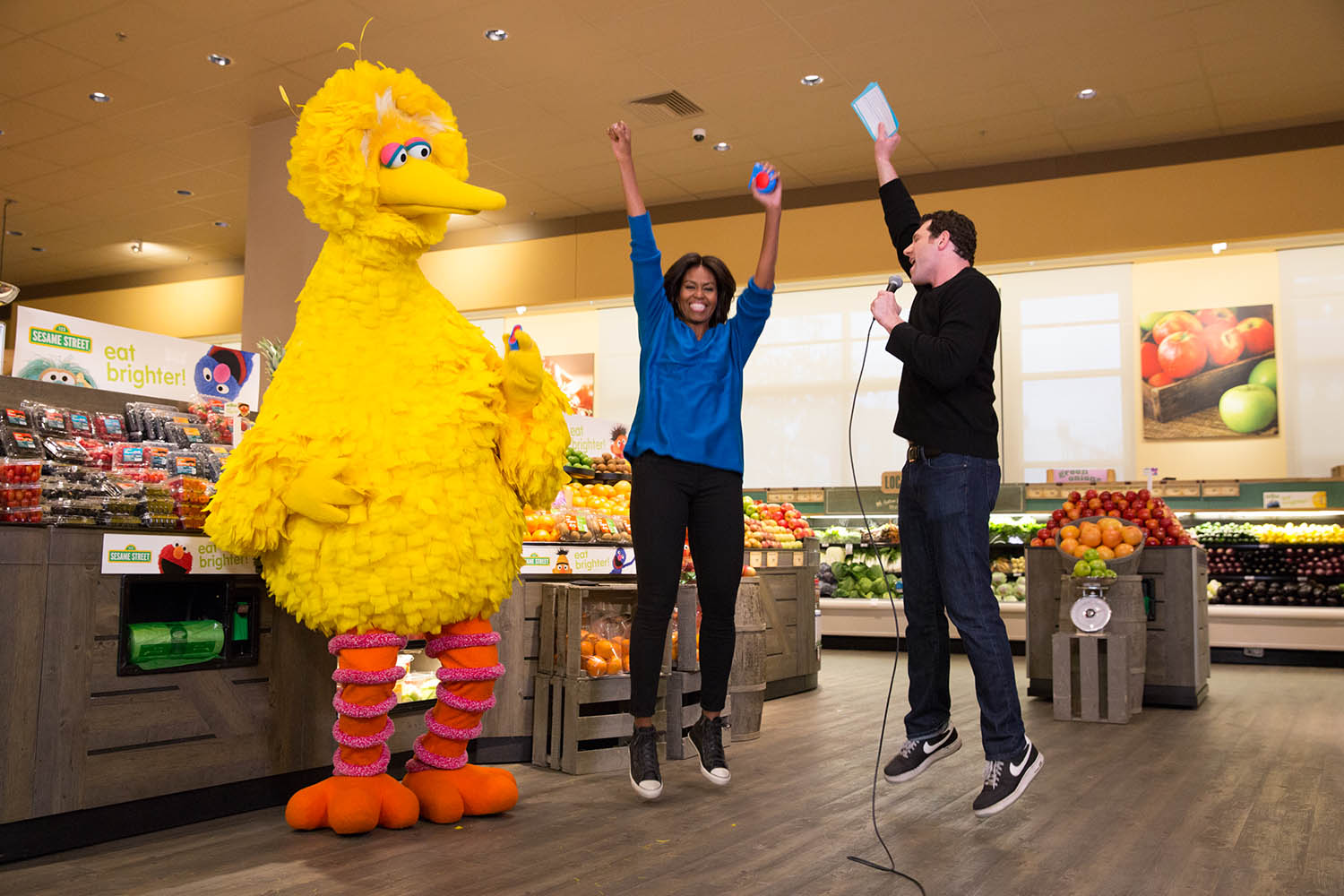 First Lady Michelle Obama participates in a "Let's Move!" Funny or Die game show taping with Billy Eichner of Billy on the Street, and Big Bird at Safeway in Washington, D.C., Jan. 12, 2015. (Official White House Photo by Amanda Lucidon)